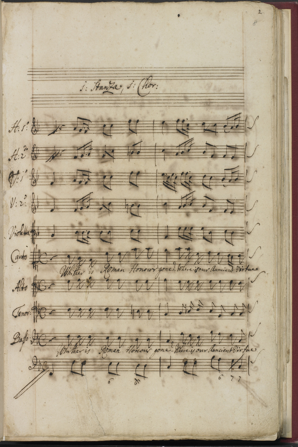 Whither is Roman honour gone – chorus from Julius Caesar. In the composer's hand.